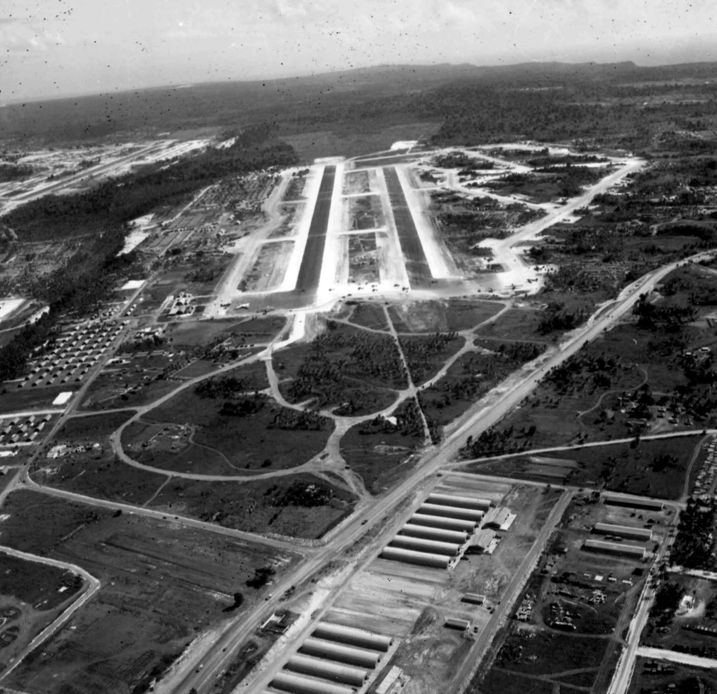 Aerial view if the Naval Air Station Agana, near Agana, Guam. This field was first built by the Japanese and in 1944-1945 improved by the U.S. Navy. January 12, 1945.